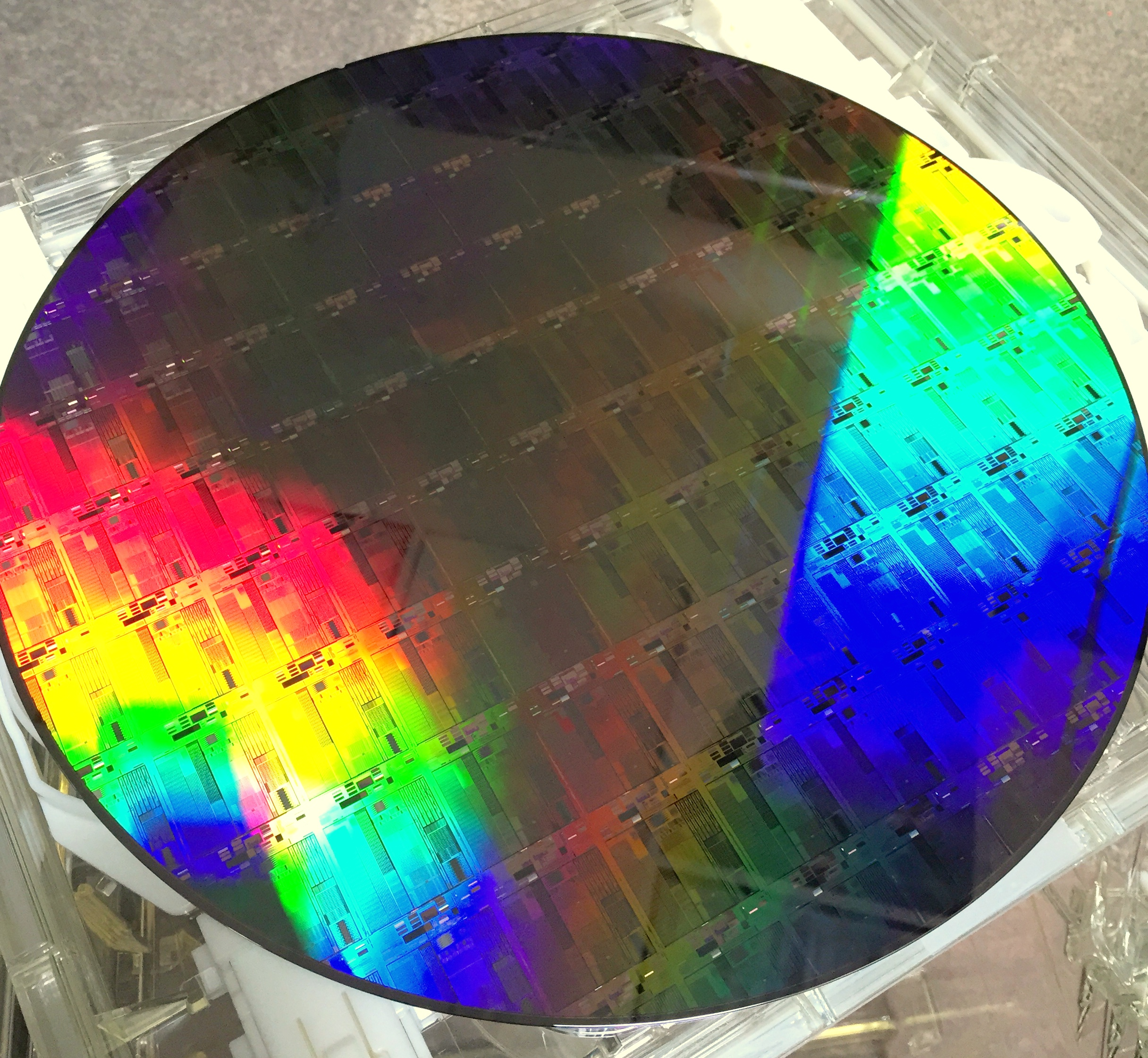 Silicon Photonics 300mm wafer